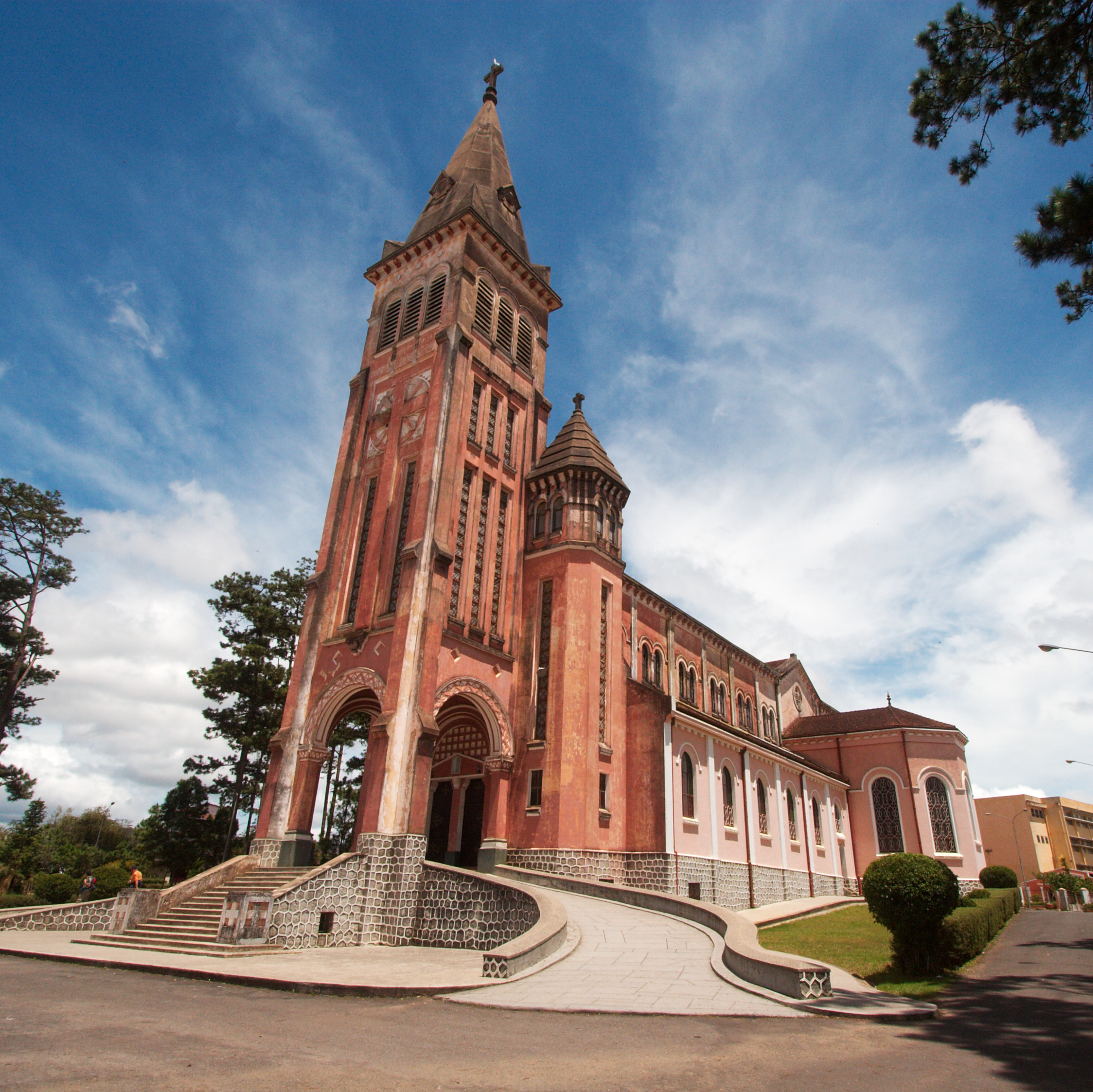 Cathedral of Dalat.